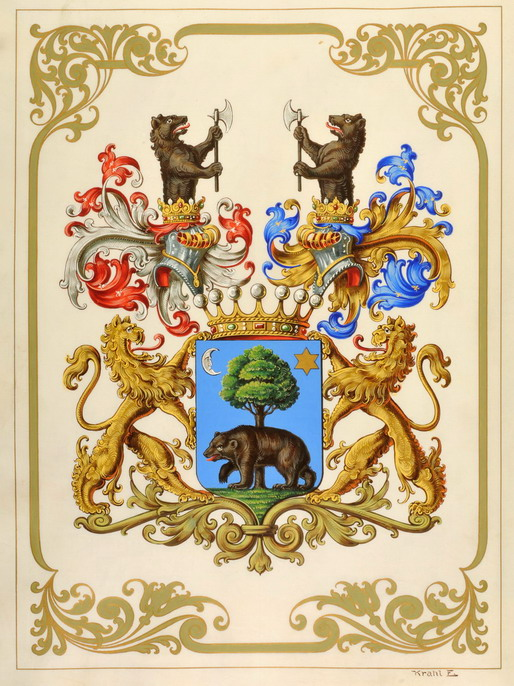 Coat of arms of the Barons Prileszky de Prilesz (granted the title of baron in the Kingdom of Hungary 1916 by Franz Joseph I.)